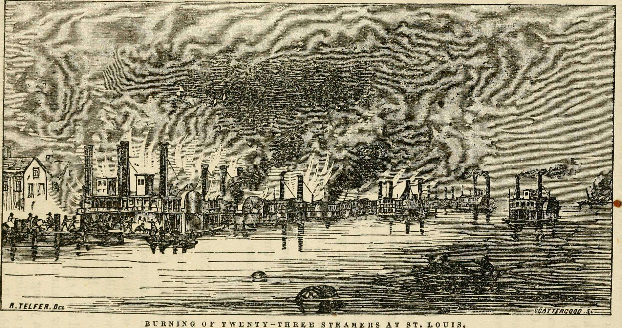 In the St. Louis Fire (1849), 23 steamboats burned.